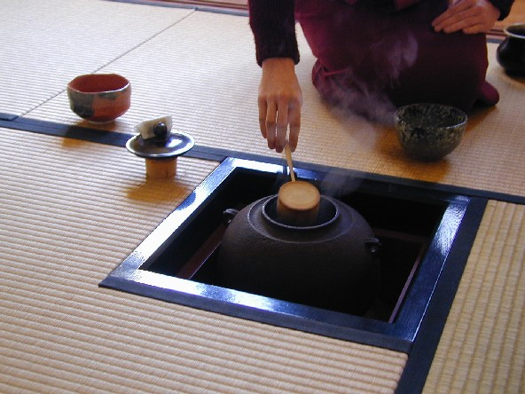 A Japanese hearth (ro) in the Japanese tea ceremony (Urasenke-style). The Hishaku (bamboo ladle) is held in the opening of the Kama, a container for boiling water.